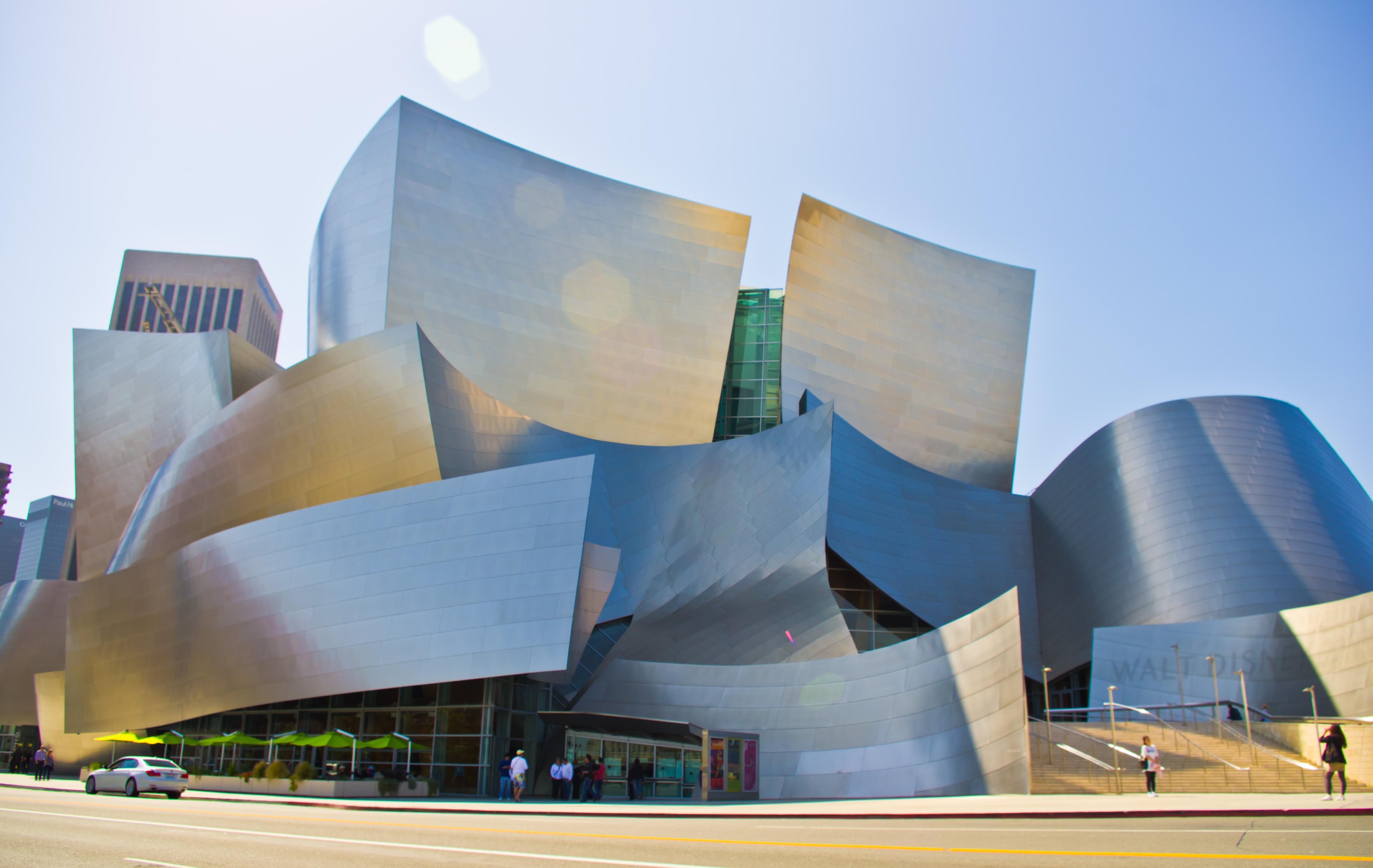 Walt Disney Concert Hall